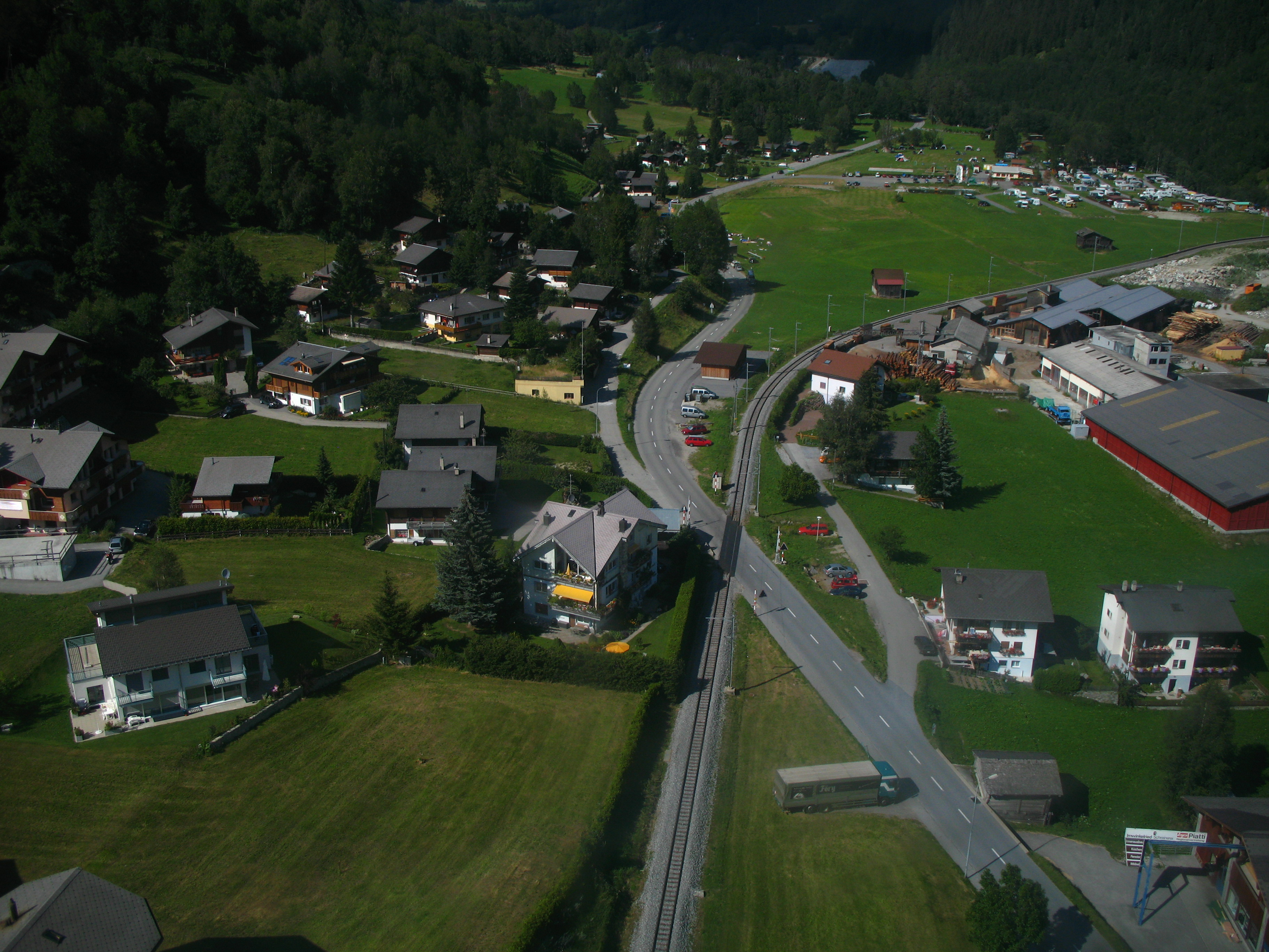 Fiesch Valley Street, Fiesch, Switzerland